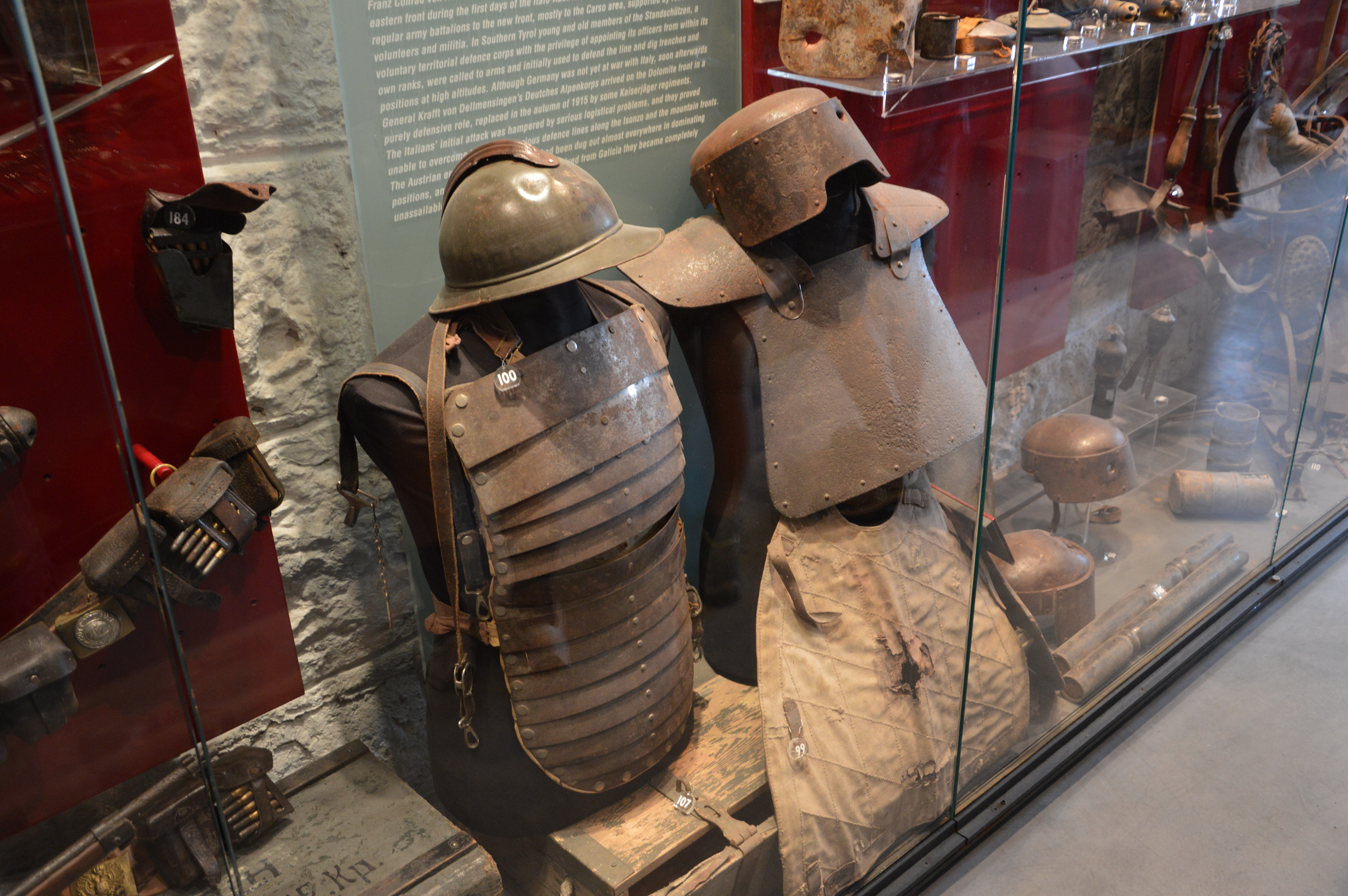 Two Italian body armors, the one on the right is a Farina-type. Used in WWI, taken at the Tre Sassi museum at Passo di Valparola (Belluno)